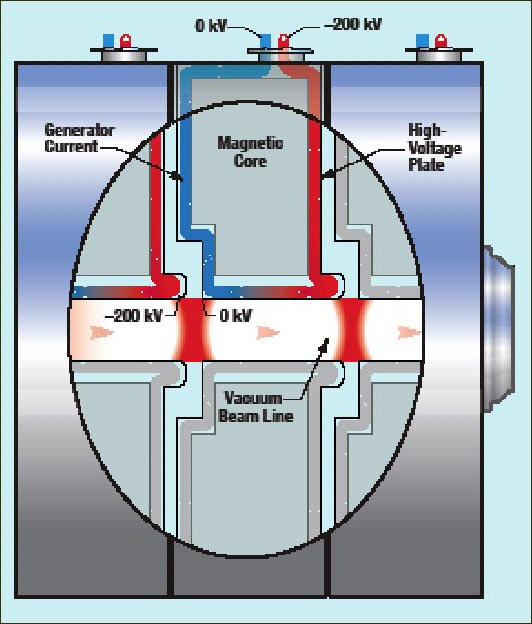 Depiction of electron accelerator at DARHT facility at Los Alamos National Lab, NM, USA. To produce X-Rays Info (DOE / PD): How It Works: Linear Induction Accelerator The single-pulse linear induction accelerator in each DARHT axis consists of a long row of doughnut-shaped induction cells (only three are shown here in this two-dimensional view) with a large accelerating voltage difference, –200 kilovolts (kV), across the gap between each pair of neighboring cells. The electron beam-pulse travels through the central bore of the cells, receiving a 200-kiloelectronvolt energy kick each time it passes though a gap. To create the accelerating voltage across the cell gap, a negative voltage pulse from a generator enters each cell (red) and travels down the high-voltage plate, which connects to the inner cylindrical surface of each cell. Together, the high-voltage plate, the cell end plate, and the inner and outer cylindrical surfaces form a conducting cavity. The voltage pulse returning to ground (zero volts) generates a current (red-to-blue transition) around the magnetic cores and an increasing (inductive) magnetic field (not shown) within them. If the cavity were empty, it would act like a short circuit, drawing too much current from the generator and reducing the voltage pulse length to a few billionths of a second. When filled with the annular magnetic “cores” surrounding the central bore, the cavity acts like an inductance, resisting the flow of current from the generator.